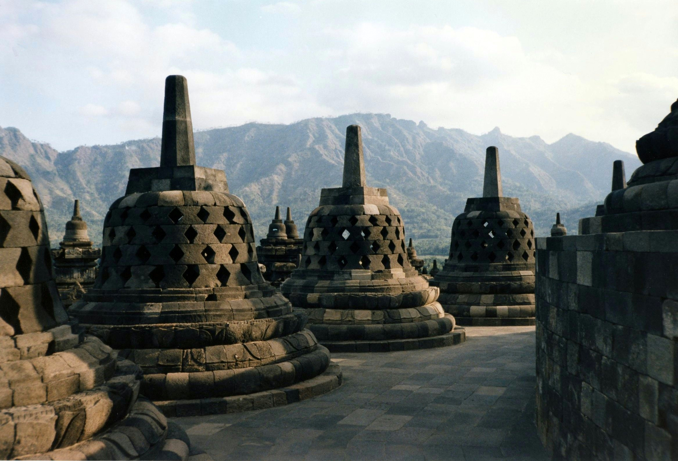 Borobudur, Java, Indonesia